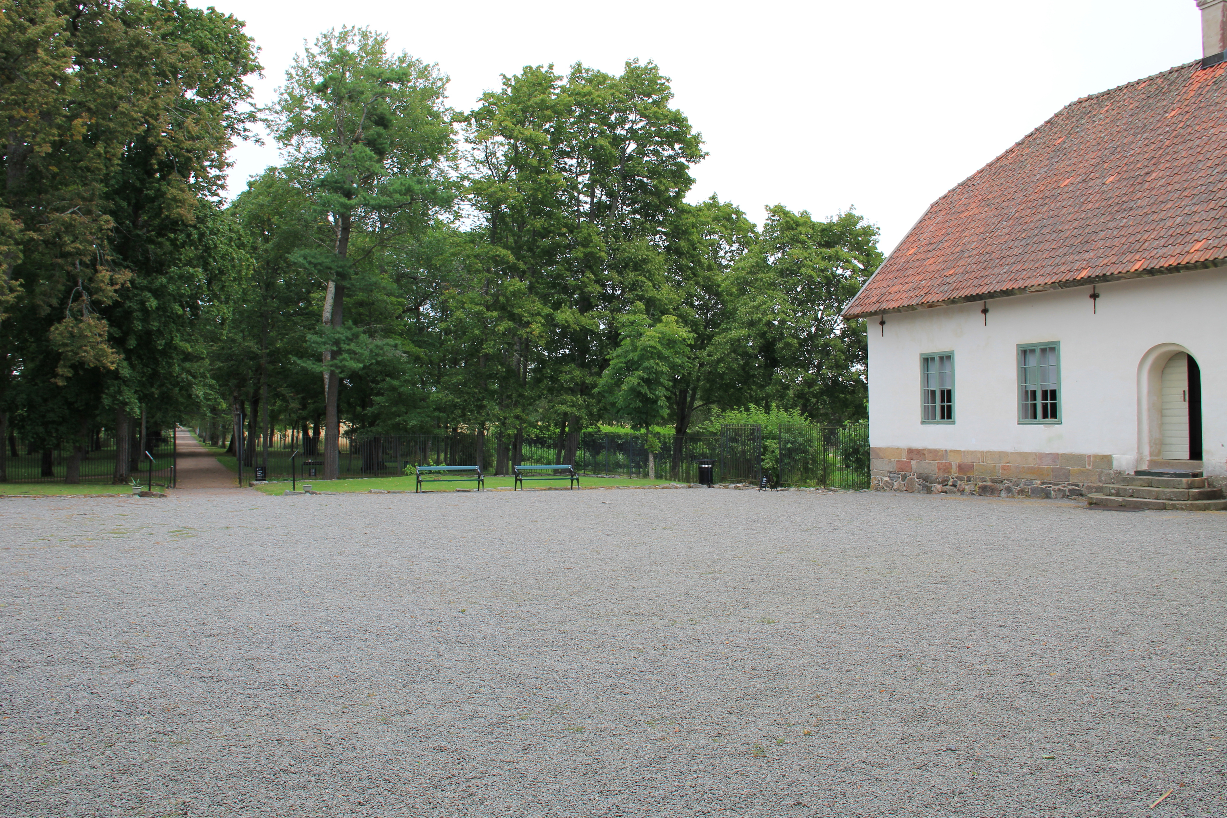 Louhisaari manor, Askainen, Masku, Finland. - Cour d'honneur and northwestern annex seen from main building entrance.